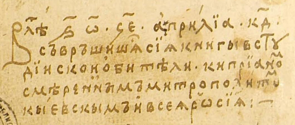 Signature of Cyprian, Metropolitan of Moscow, made by him in the last page of manuscript of The Ladder of Divine Ascent on April 24, 1387